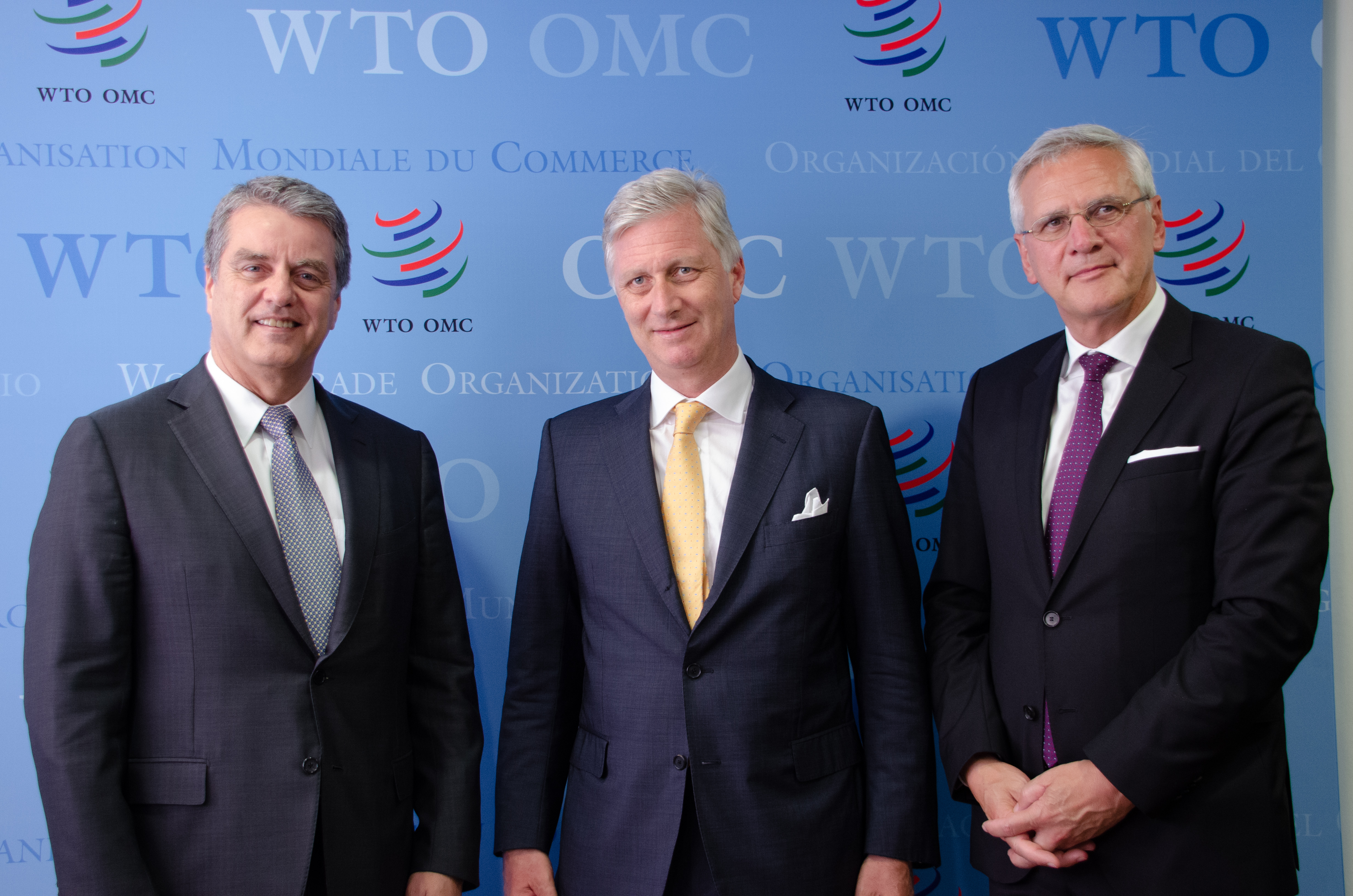 Director-General Roberto Azevêdo welcomed His Majesty King Philippe of Belgium to the WTO on 20 June. The two discussed current global trade tensions, the importance of the multilateral trading system, and how to make trade more inclusive in the future. The King was accompanied by Mr Kris Peeters, Deputy Prime Minister and Minister of Economy and Consumer Employment.